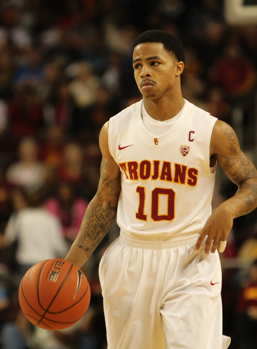 USC vs. UCLA Men's Basketball at Galen Center on Jan. 15, 2012. (Photos taken by James Santelli/Neon Tommy)